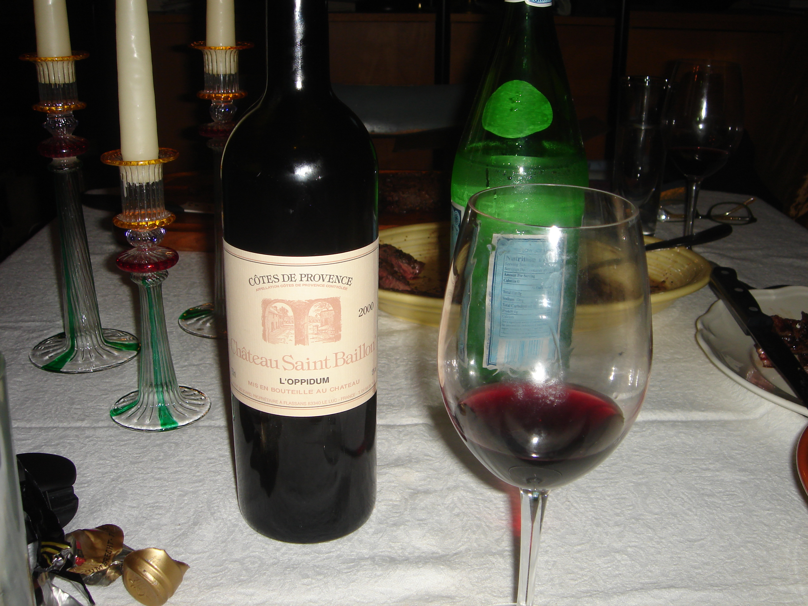 Bottle and glass of red wine from the Côtes de Provence.